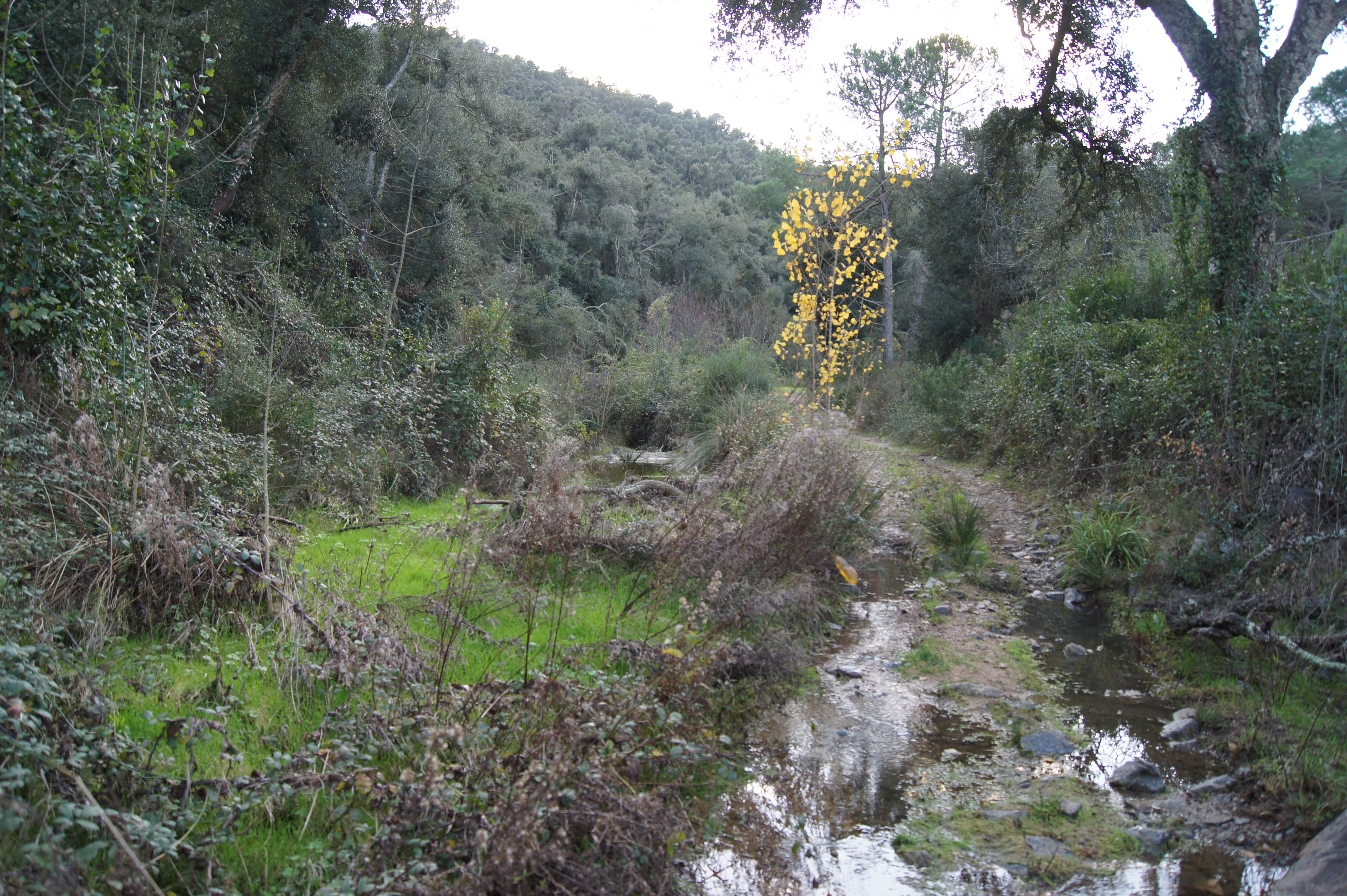 Calonge, Catalonia: The Folc